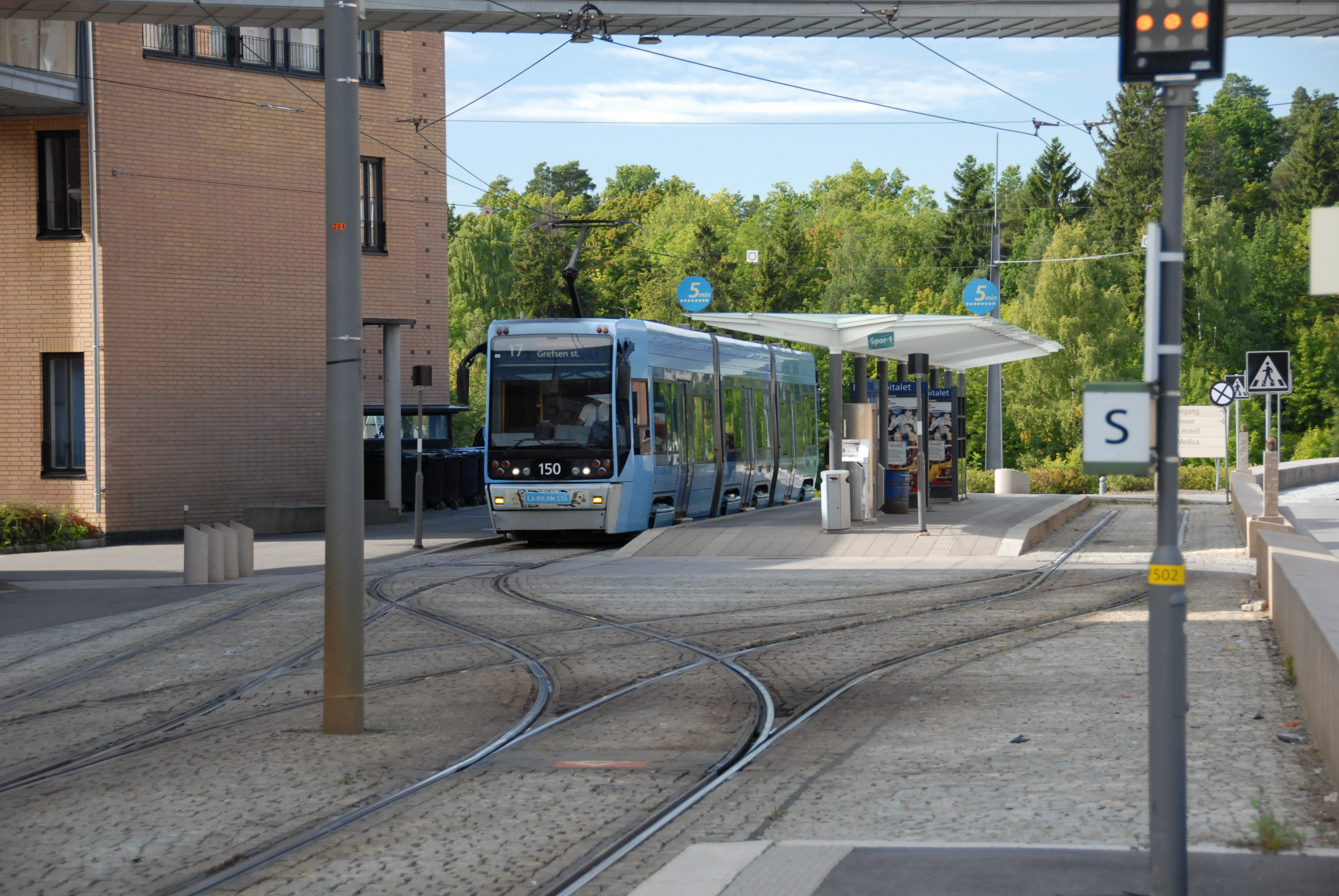 Rikshospitatlet station in Oslo with SL-95